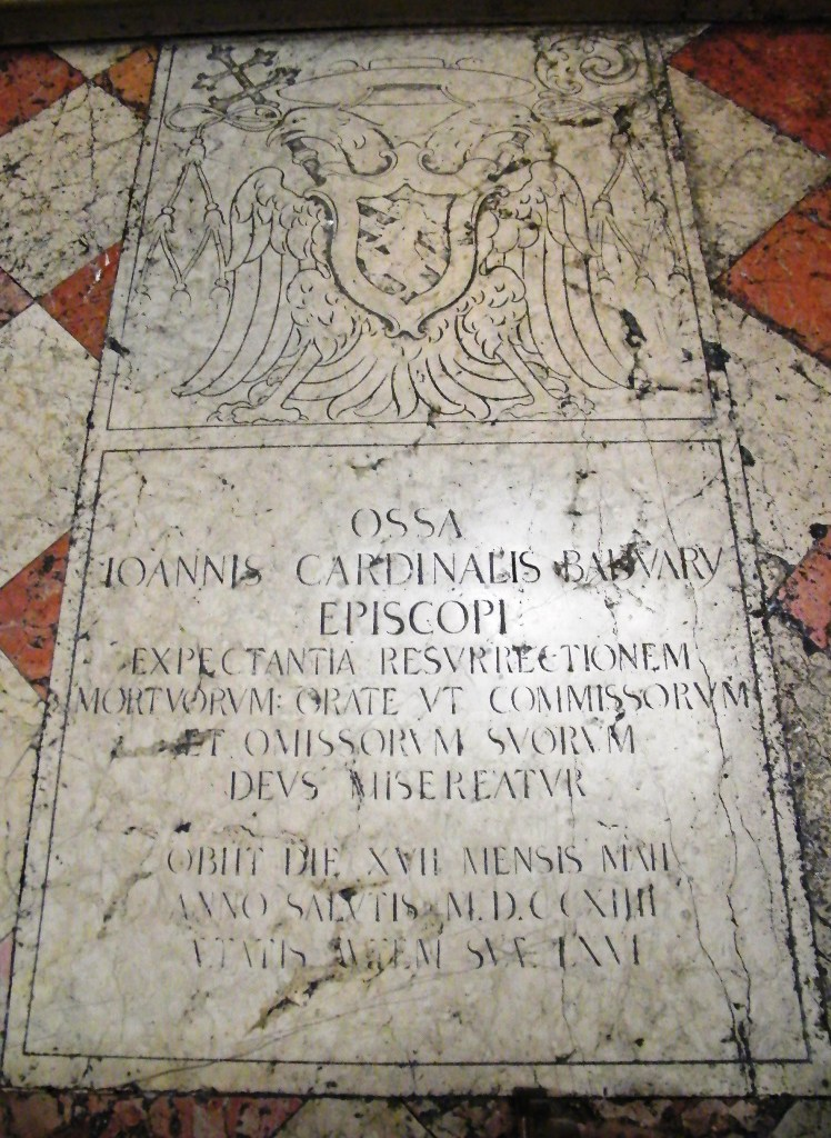 Giovanni Badoer. Grave in Duomo Nuovo, Brescia.